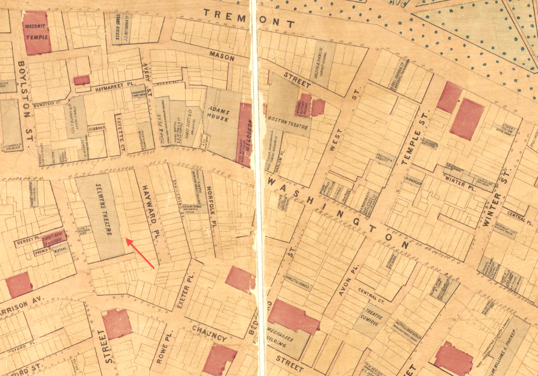 Detail of map of Boston, Massachusetts, USA, showing Selwyn's Theatre and vicinity. Title: Nanitz' great mercantile map of Boston Publisher: Russell, B. B. (Benjamin B.) Date: 1869